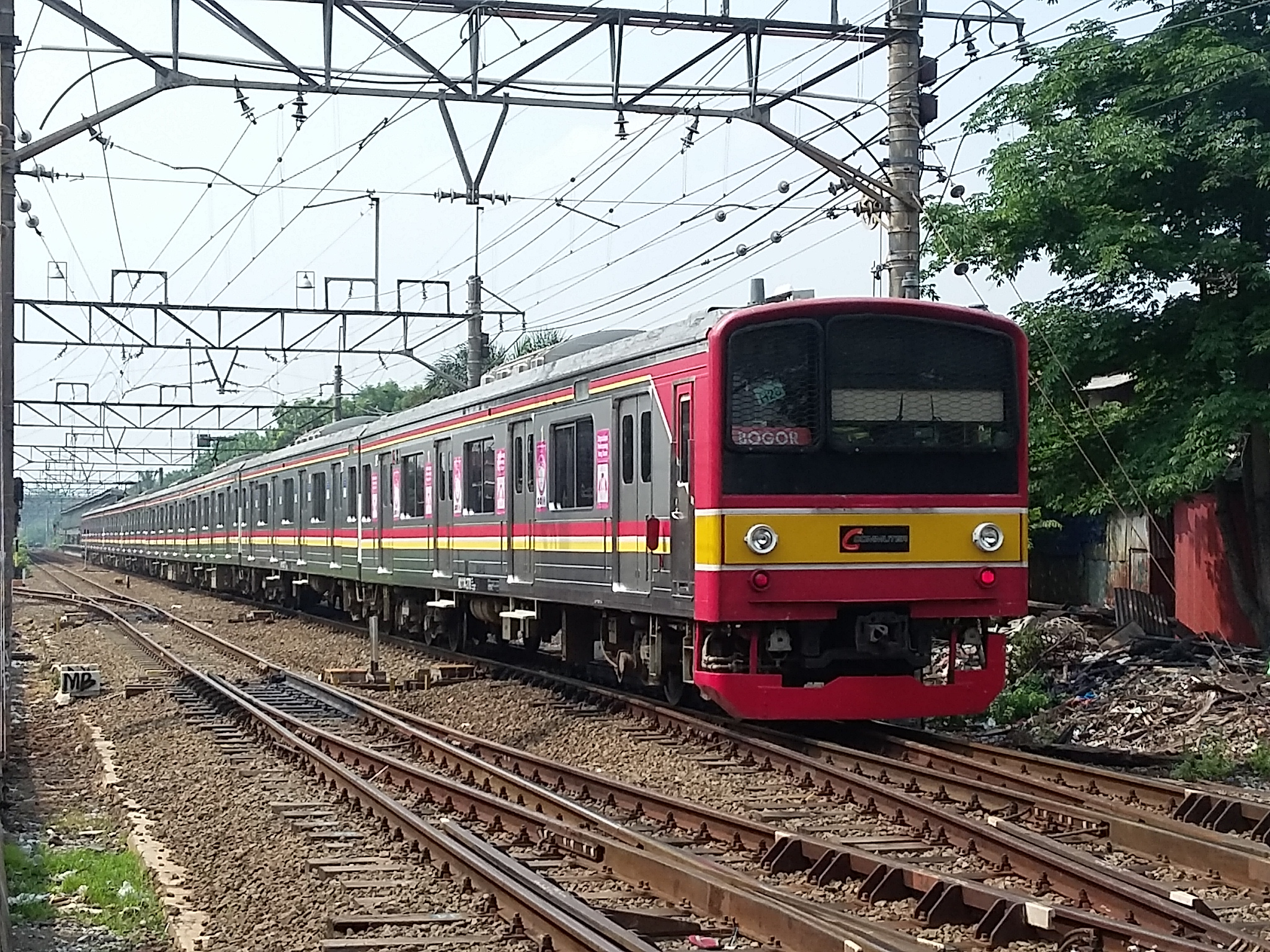 Taken at 5 December 2015